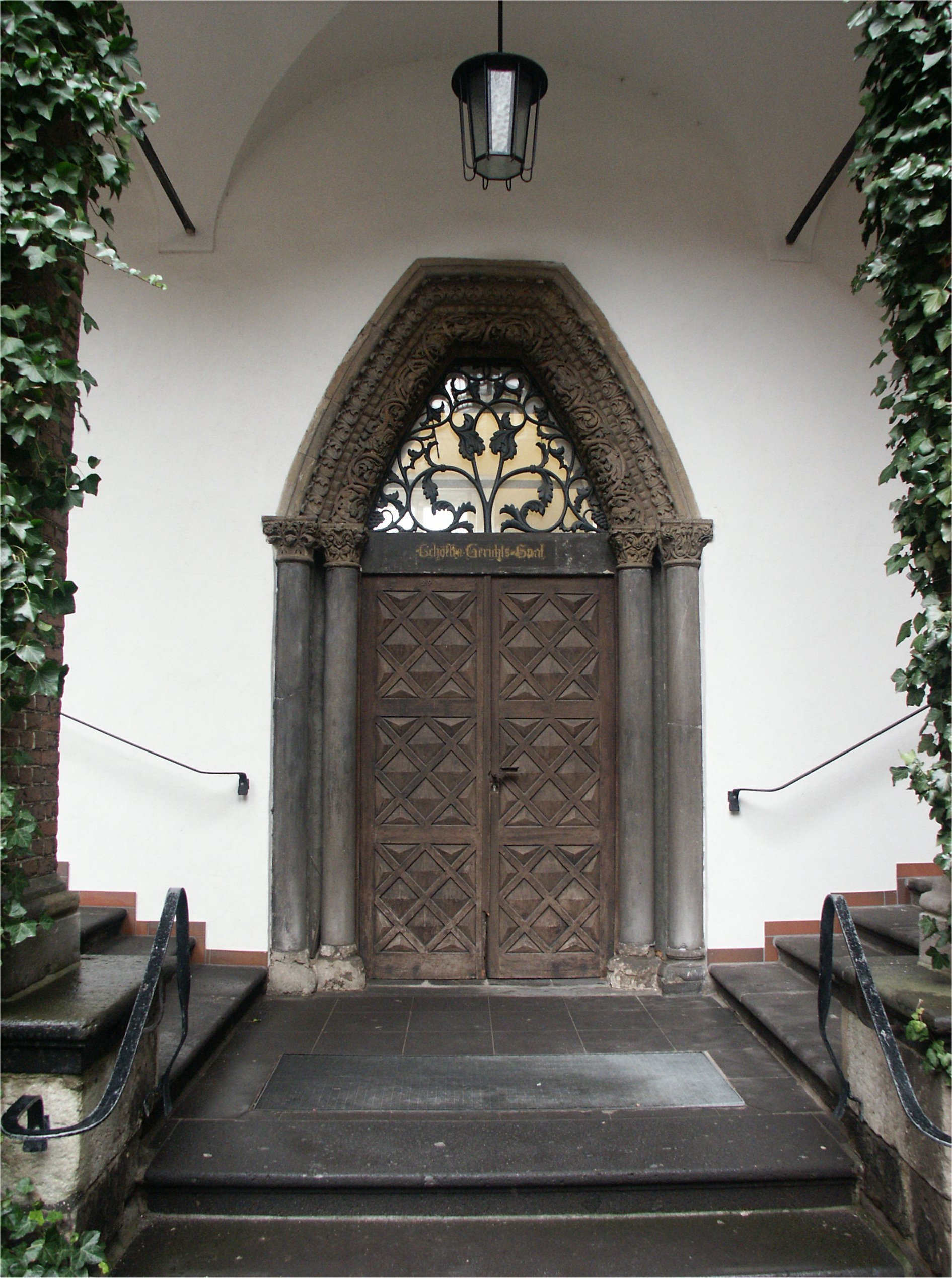 The Schwanenburg, door with romanic components